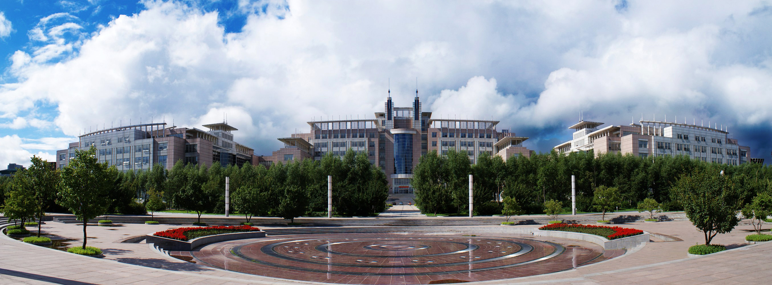 PRC State key laboratory in Jilinuniversity ，China 中文（中国大陆）: 吉林大学南区理科实验大楼,国家重点实验室之一。